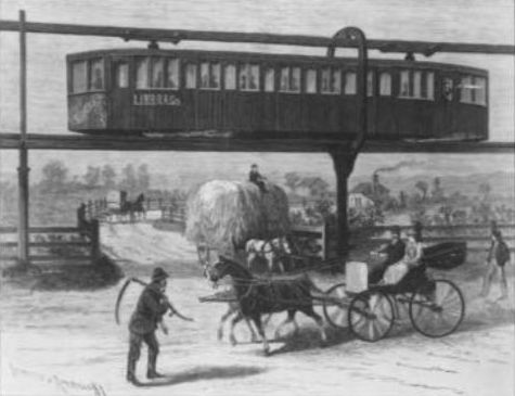 The "Rocket", the electric railcar of the Boynton Bicycle Electric Railroad, in an illustration from Scientific American, 17th February, 1894. The Boynton type monorail was built in 1894 between East Patchogue an Bellport, Long Island, NY.